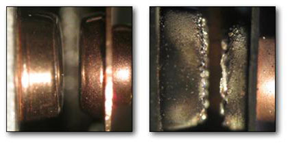 Contacts (electrodes) new and used